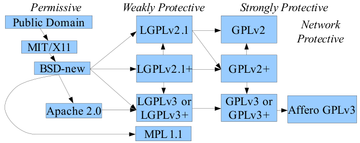 compatibility of common open-source software licenses 2007, by David A. Wheeler